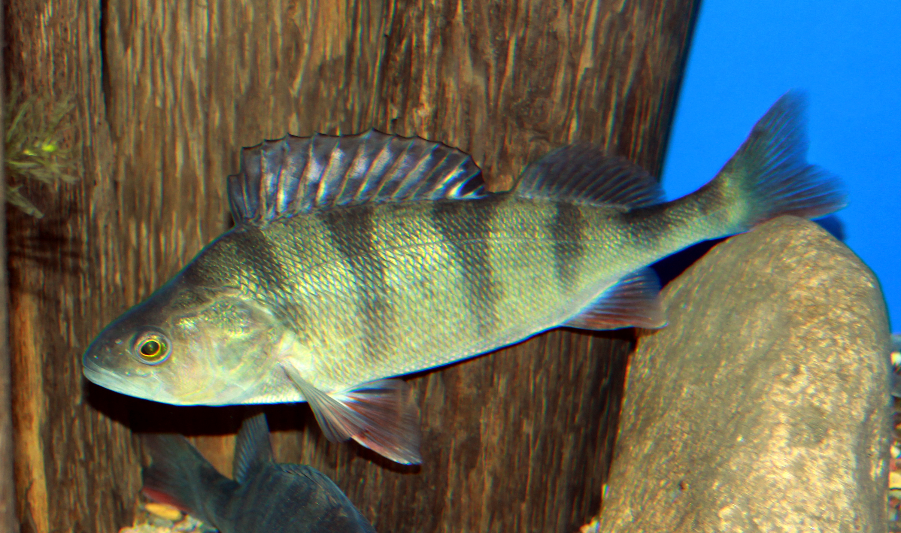 European perch on exhibition Subaqueous Vltava, Prague 2011, Czech Republic